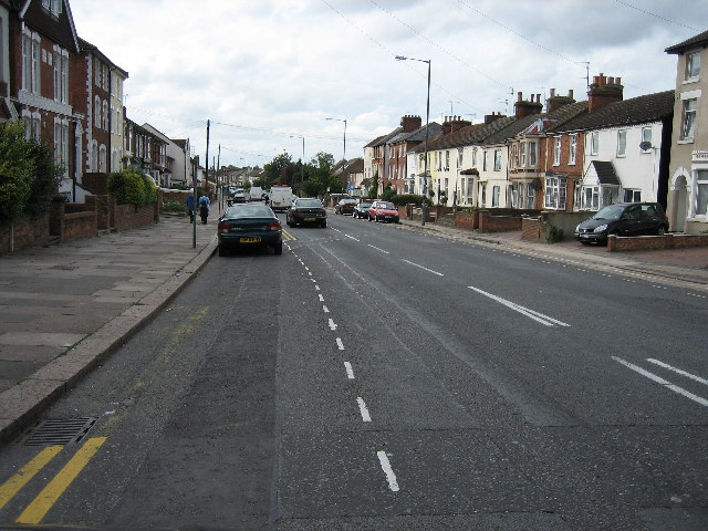 Bicester Road looking west. Lies on the path of the Roman Road called Akeman Street